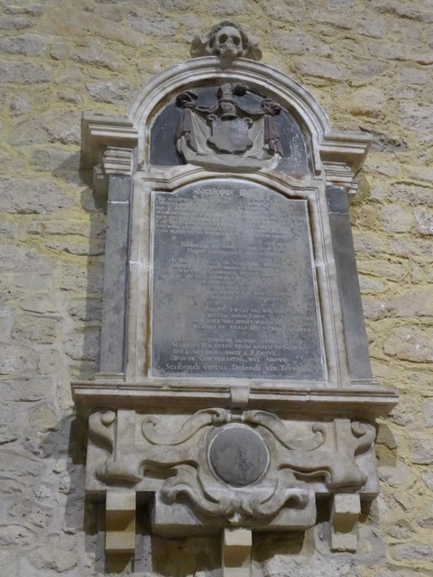 Inside All Saints, Freshwater (t)